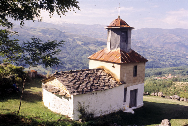 Northeastern look of Church of the Holy Virgin in Sredska, Prizren